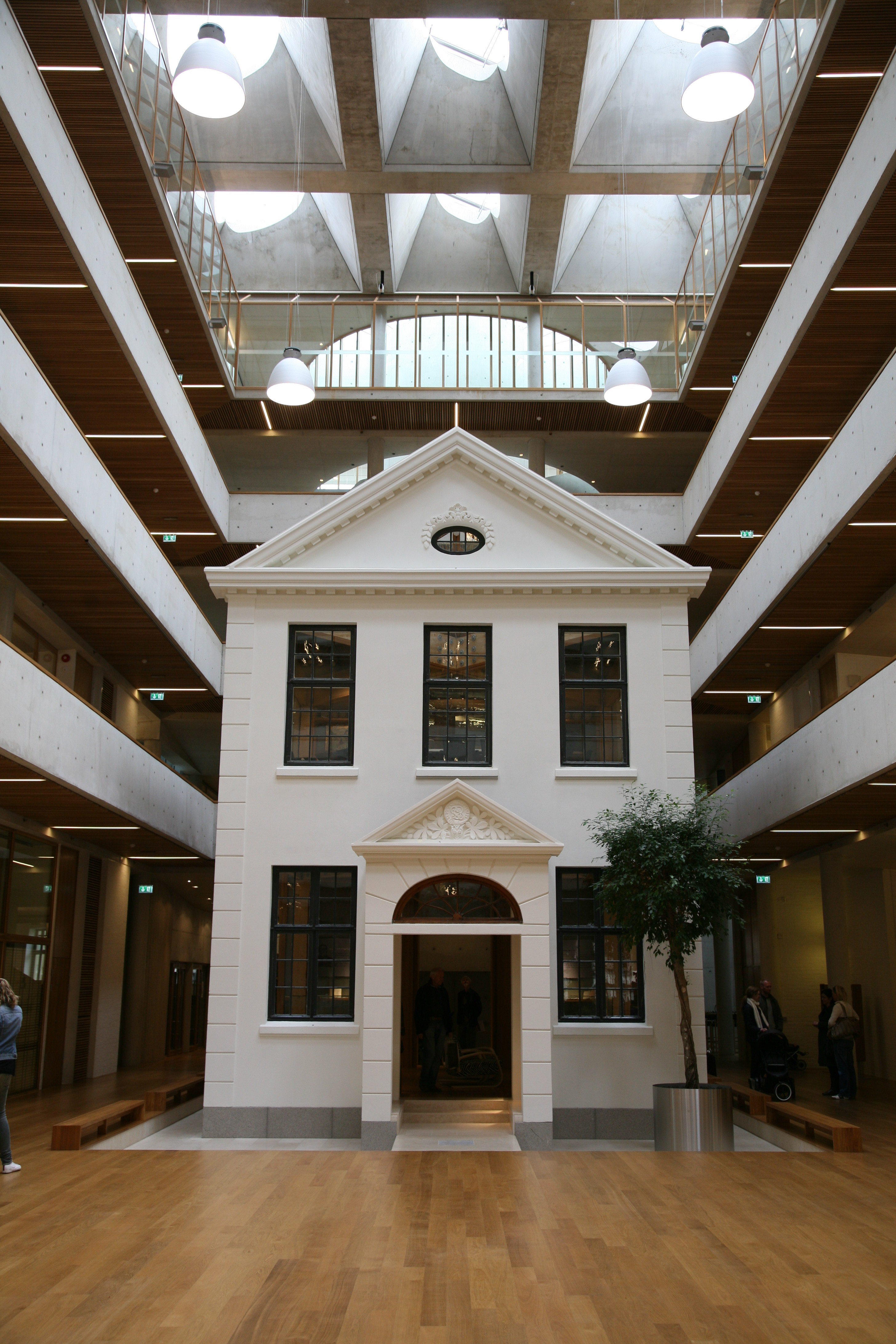 The central hall in the Gyldendal house in Oslo. Gyldendal Norsk Forlag is a publishing house in Oslo. This is their headquarter. The house within the central atrium is called Danskehuset (the Danish House), after the house of the original Danish publishing house Gyldendal. Architect was Sverre Fehn.